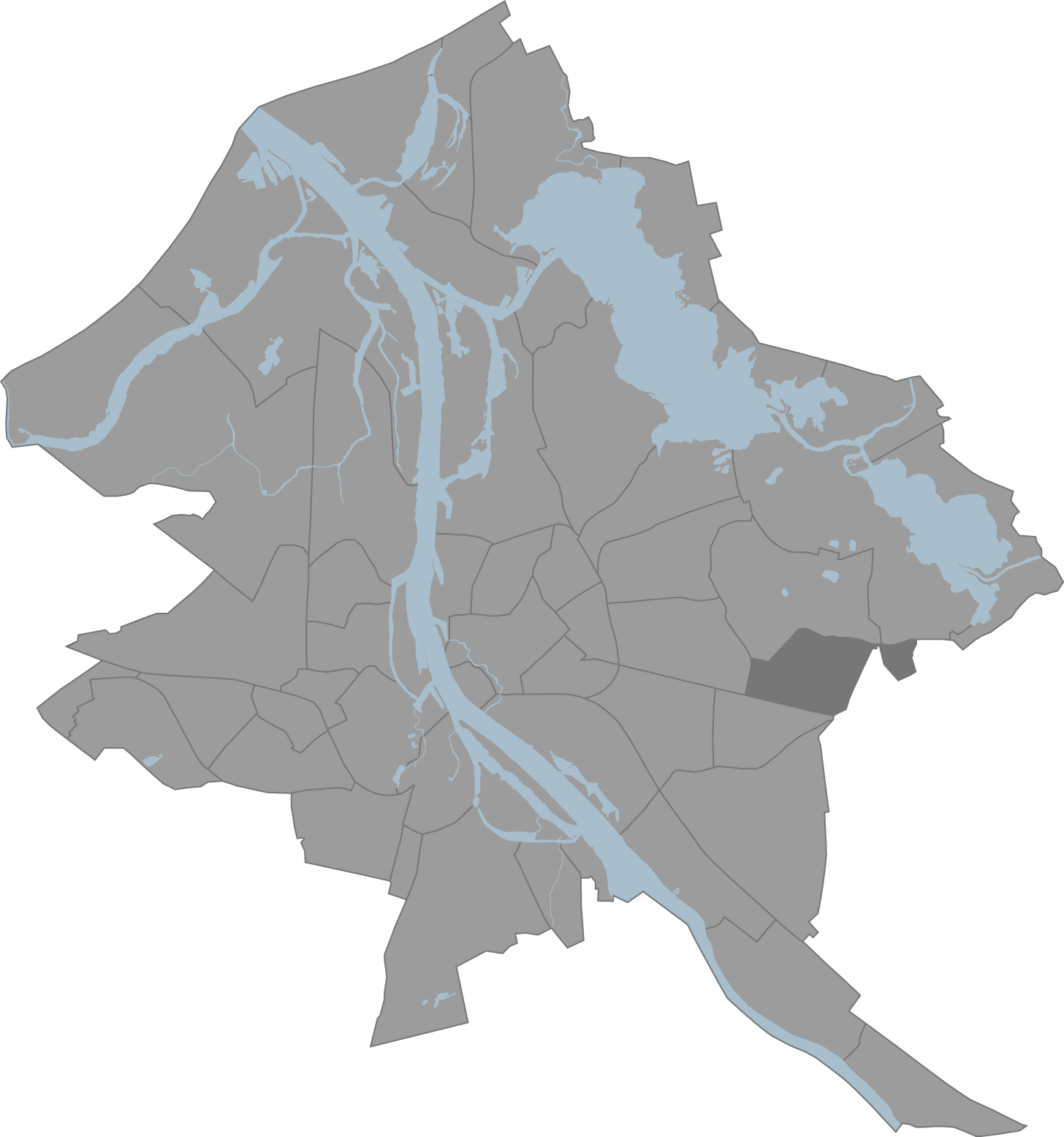 A map of Riga, Latvia with the eponymous commune highlighted